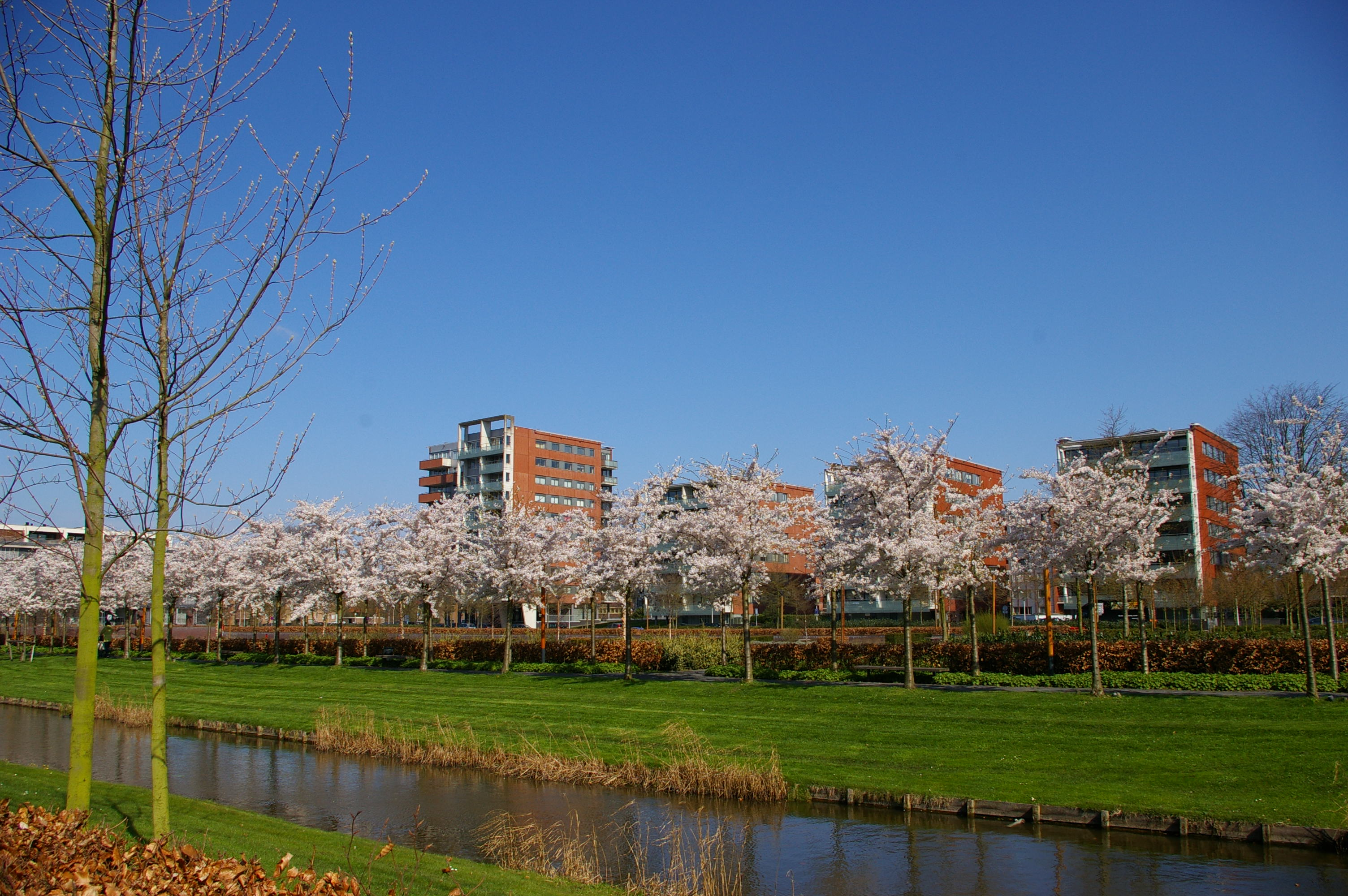 Laan van Deshima, Amstelveen, the Netherlands